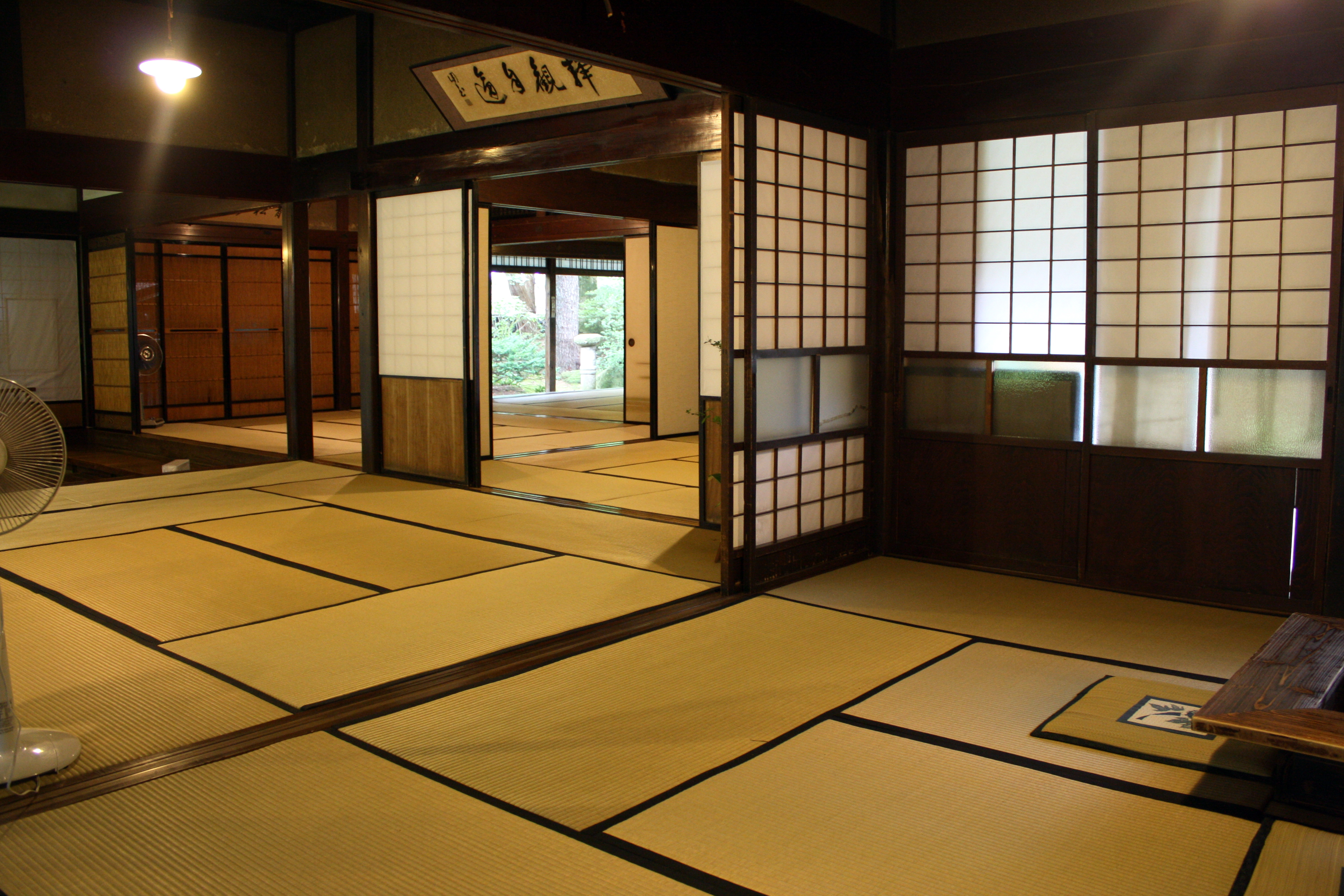 "Samurai House in Kakunodate. Read my vacation journal about our trip to Japan and China on everlater